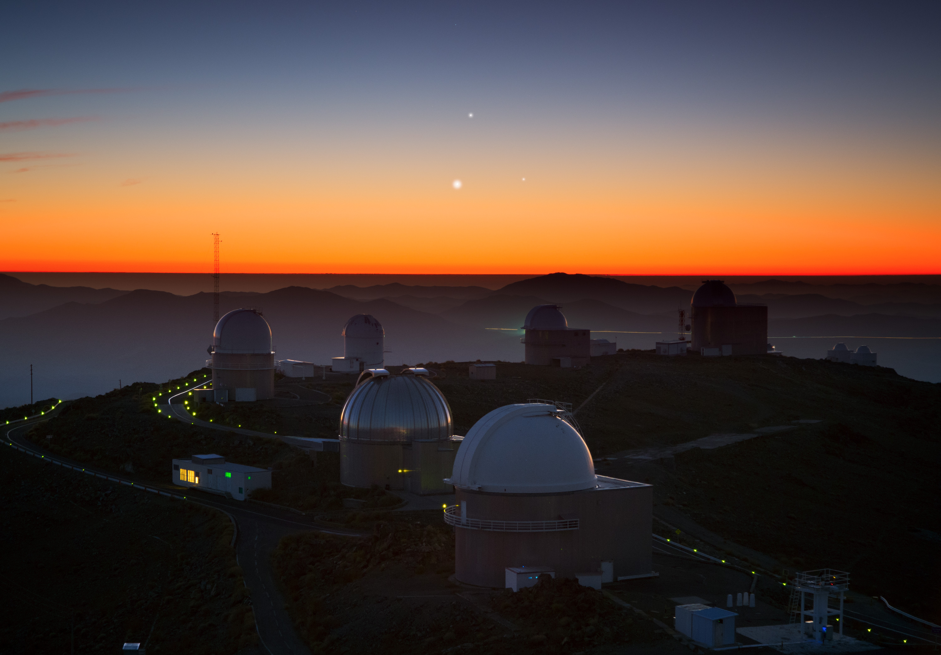 It’s a real treat for photographers and astronomers alike: our skies are currently witnessing a phenomenon known as a syzygy — when three celestial bodies (or more) nearly align themselves in the sky. When celestial bodies have similar ecliptic longitude, this event is also known as a triple near-conjunction. Of course, this is just a trick of perspective, but this doesn't make it any less spectacular. In this case, these bodies are three planets, and the only thing needed to enjoy the show is a clear view of the sky at sunset. Luckily, this is what happened for ESO photo ambassador Yuri Beletsky, who had the chance to spot this spectacular view from ESO's La Silla Observatory in northern Chile on Sunday 26 May. Above the round domes of the telescopes, three of the planets in our Solar System — Jupiter (top), Venus (lower left), and Mercury (lower right) — were revealed after sunset, engaged in their cosmic dance. An alignment like this happens only once every several years. The last one took place in May 2011, and the next one will not be until October 2015. This celestial triangle was at its best over the last week of May, but you may still be able to catch a glimpse of the three planets as they form ever-changing arrangements during their journey across the sky.